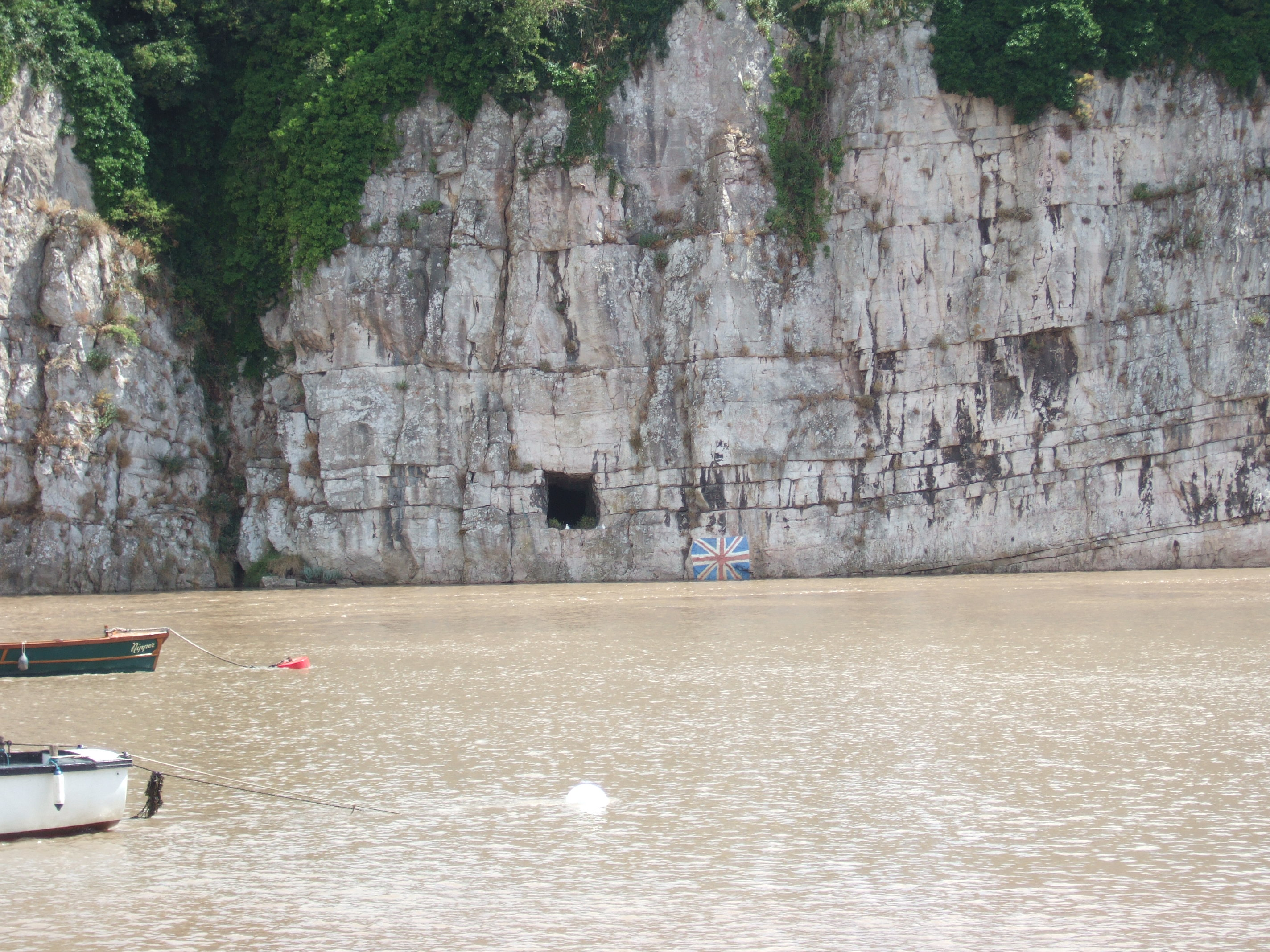 The Gloucester Hole in Chepstow at high tide.